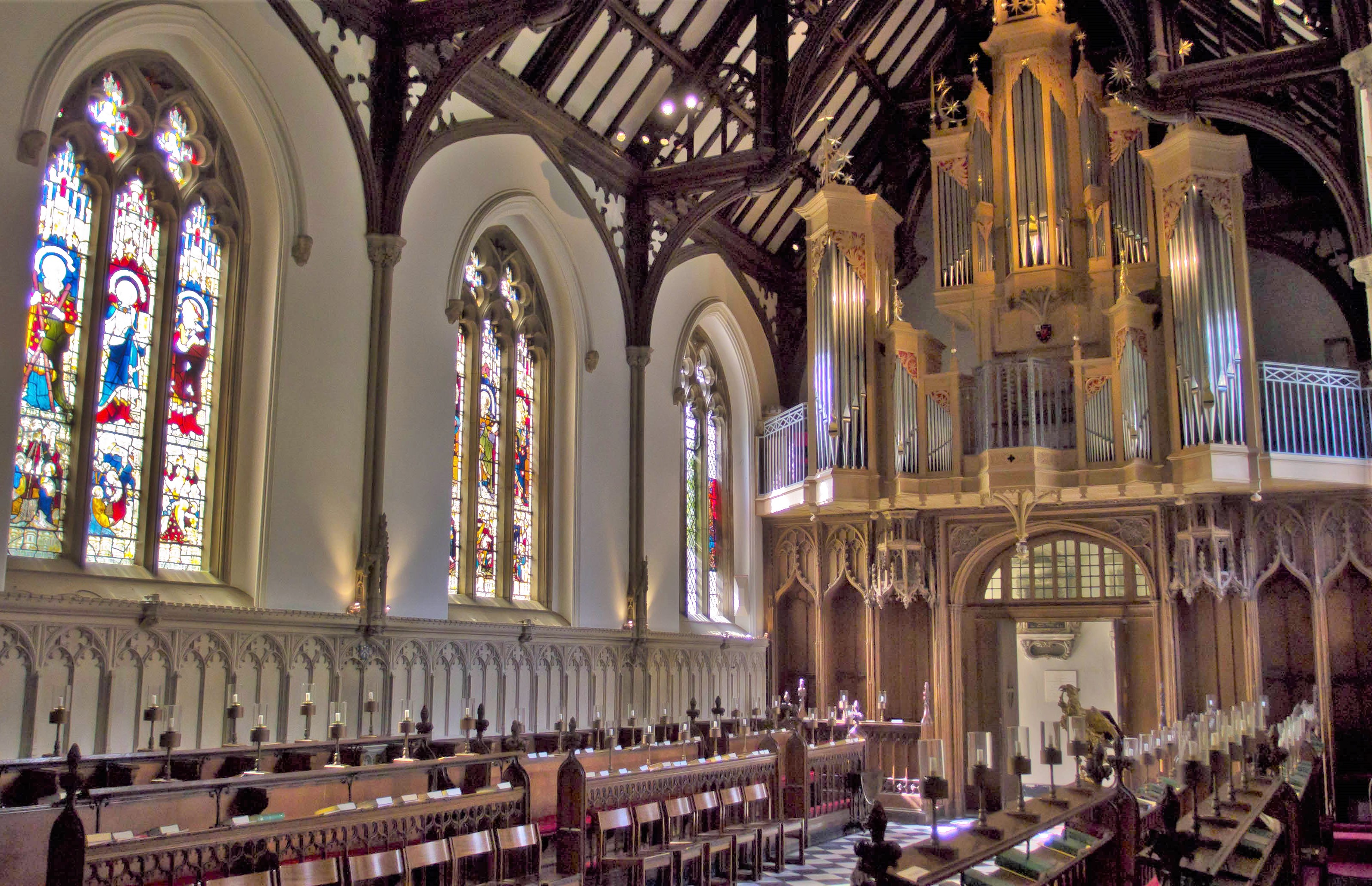 Inside St John's College Chapel, Oxford. On the right is the organ, built in 2008